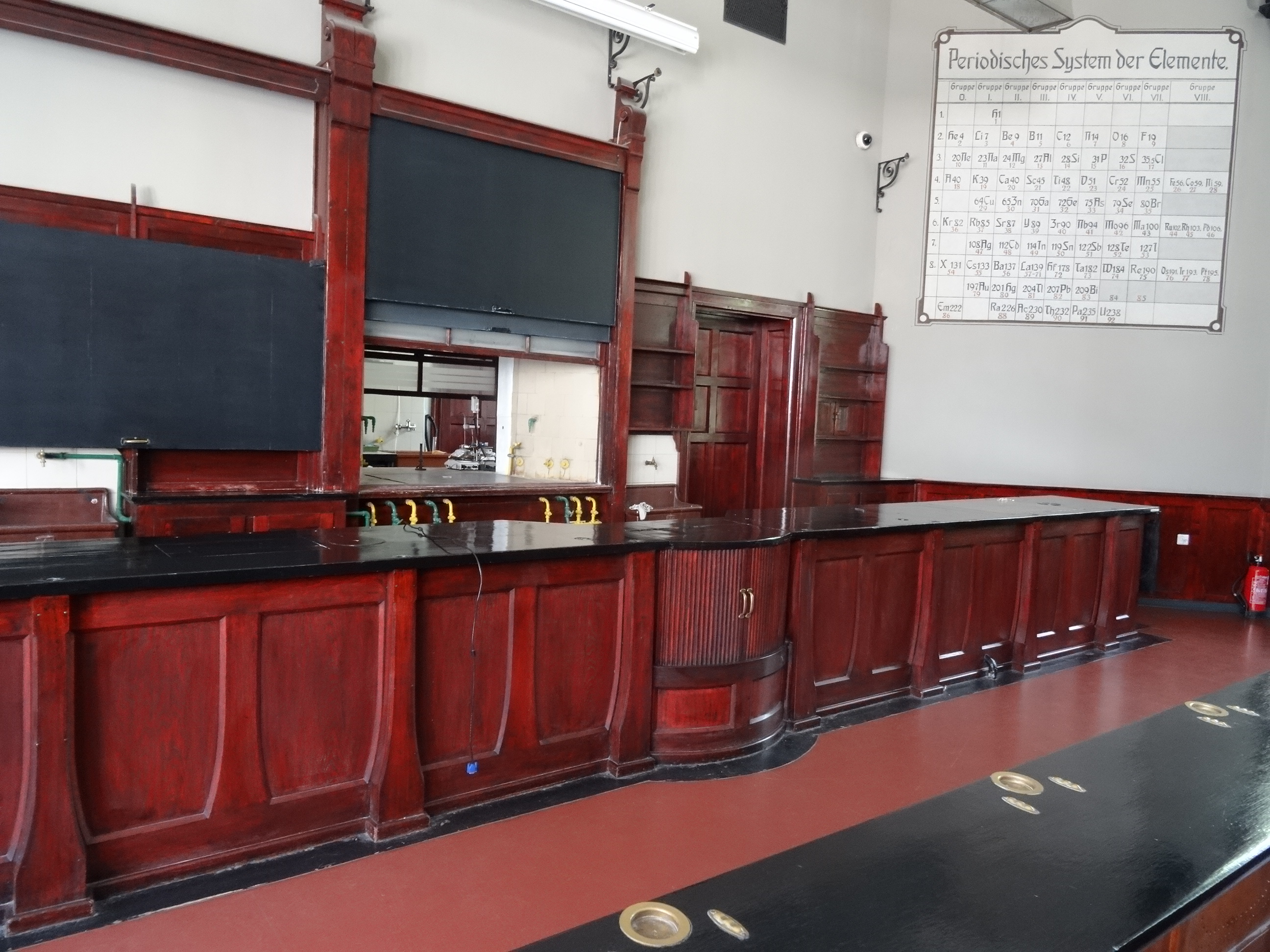 Picture taken in the authentic interior of the historic auditorium of the Chemical Department of the Gdańsk University of Technology from 1904. The view from the student's place in the foreground shows the student's desktop with space for the inkwell and a dip pen support. In the background there is a cathedral, designed for demonstrations of chemical experiments (equipped with water and gas connections, sewage disposal, retractable window shields protecting the audience against the effects of an explosion, etc.), behind which is a historic laboratory fume hood enabling safe presentation of various chemical experiments and painted on the wall periodic table of elements representing knowledge from the beginning of the 20th century. The auditorium with excellent acoustics, allowing a person with not very loud voice to be heard by over 120 listeners, with natural ventilation, had high windows that perfectly illuminate the interior from both sides while allowing the complete darkening if needed of the interior by means of blinds moved from 1904 to the present day.